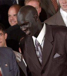 Kueth Duany, former college basketball player for the Syracuse Orange from Sudan. Was the captain and lone senior on Syracuse's 2003 NCAA National Championship team.